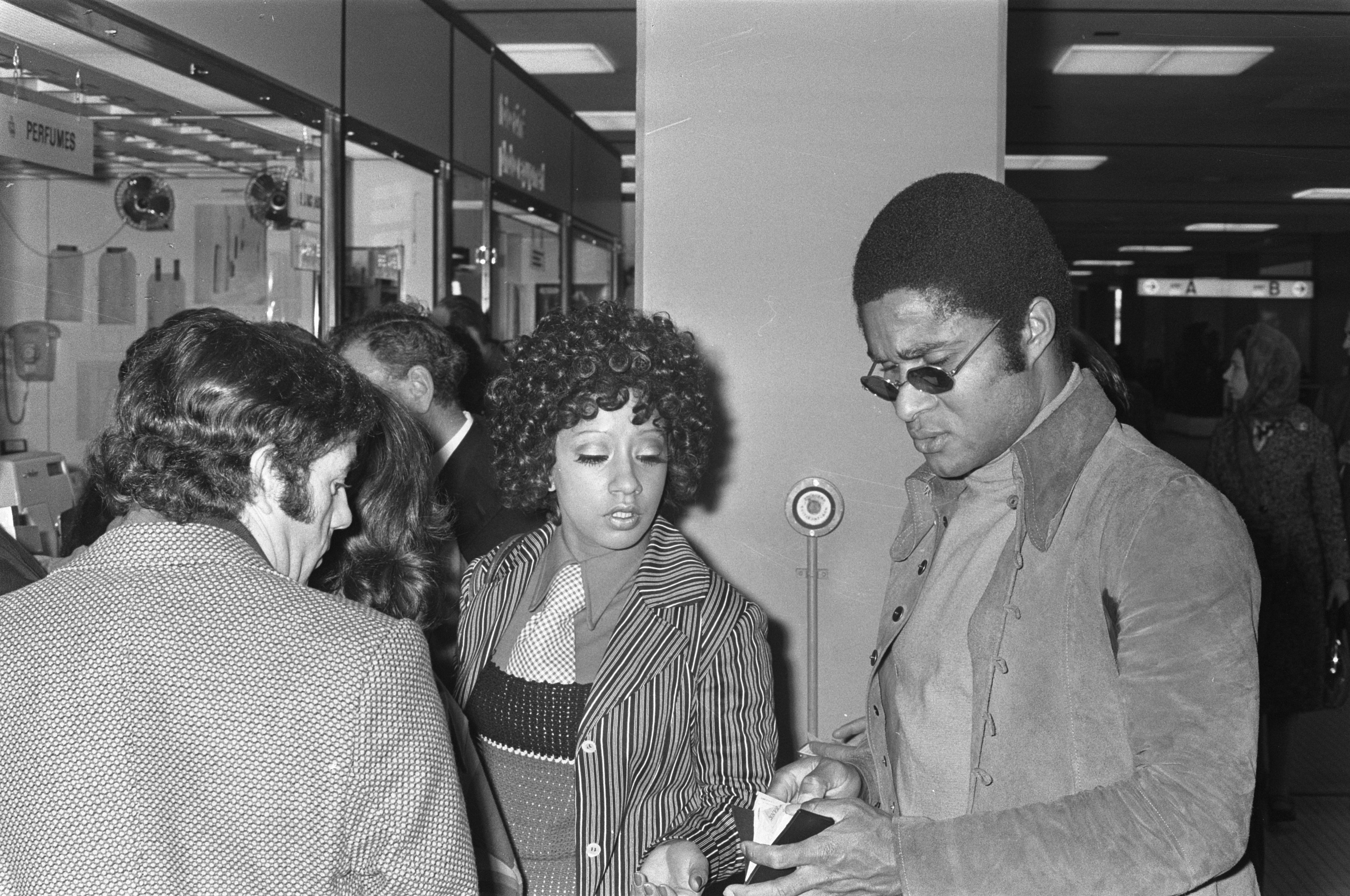 Portugese football team of Benfica leaving the Netherlands. Right: Eusebio, middle: Flora Bruheim. Schiphol Airport, 6 April 1972